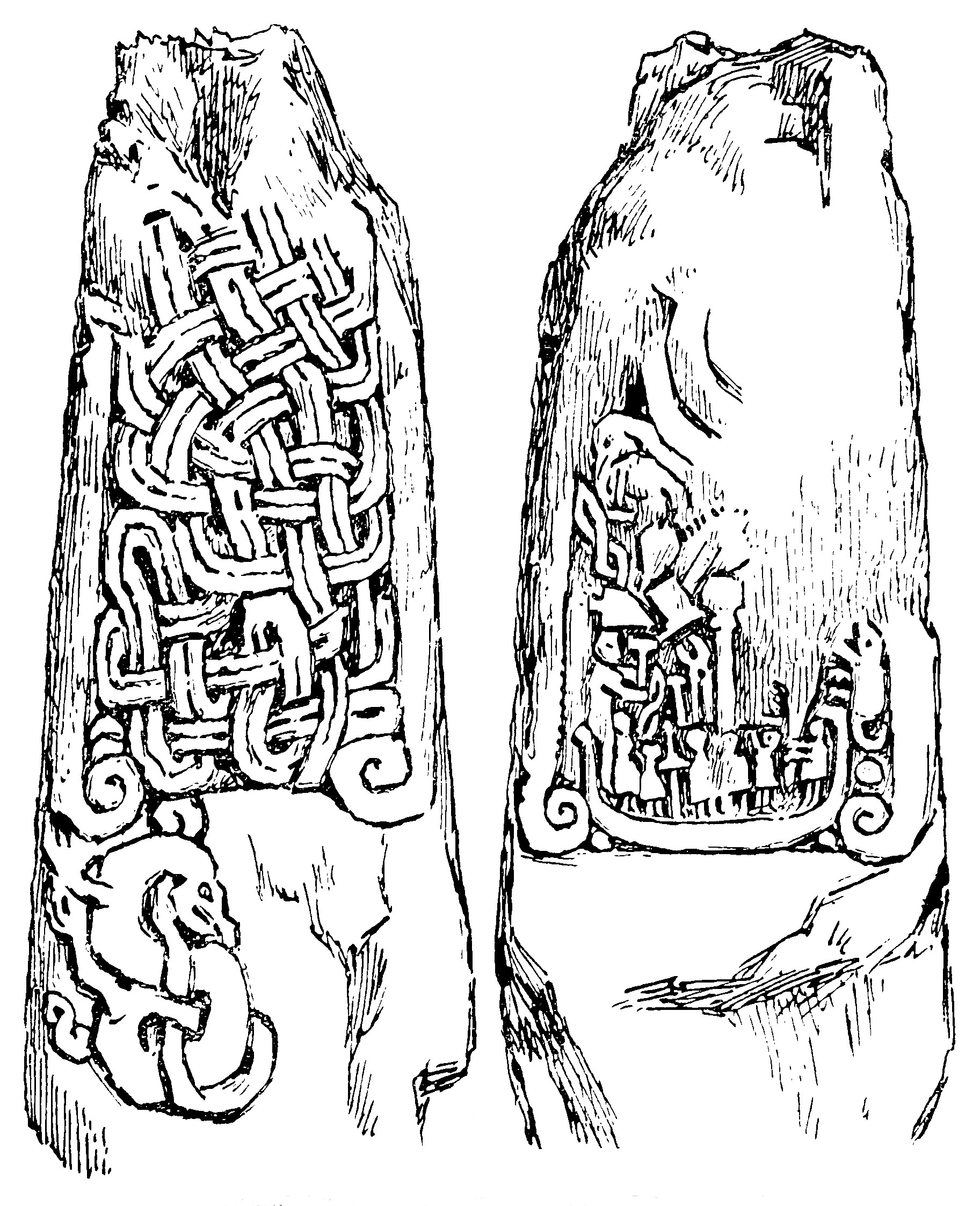 A cross-slab from Iona.